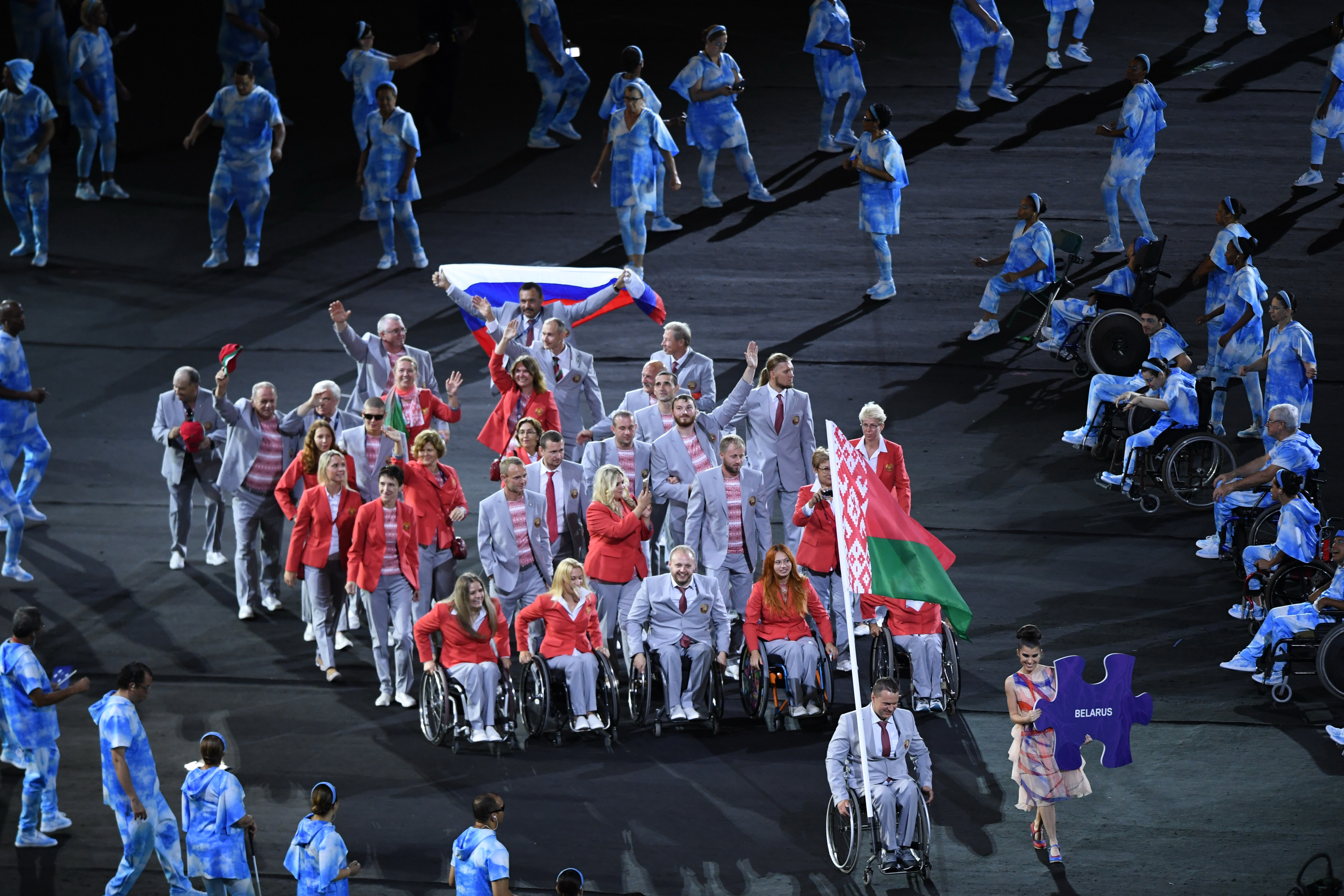 2016 Summer Paralympics: Opening with ...